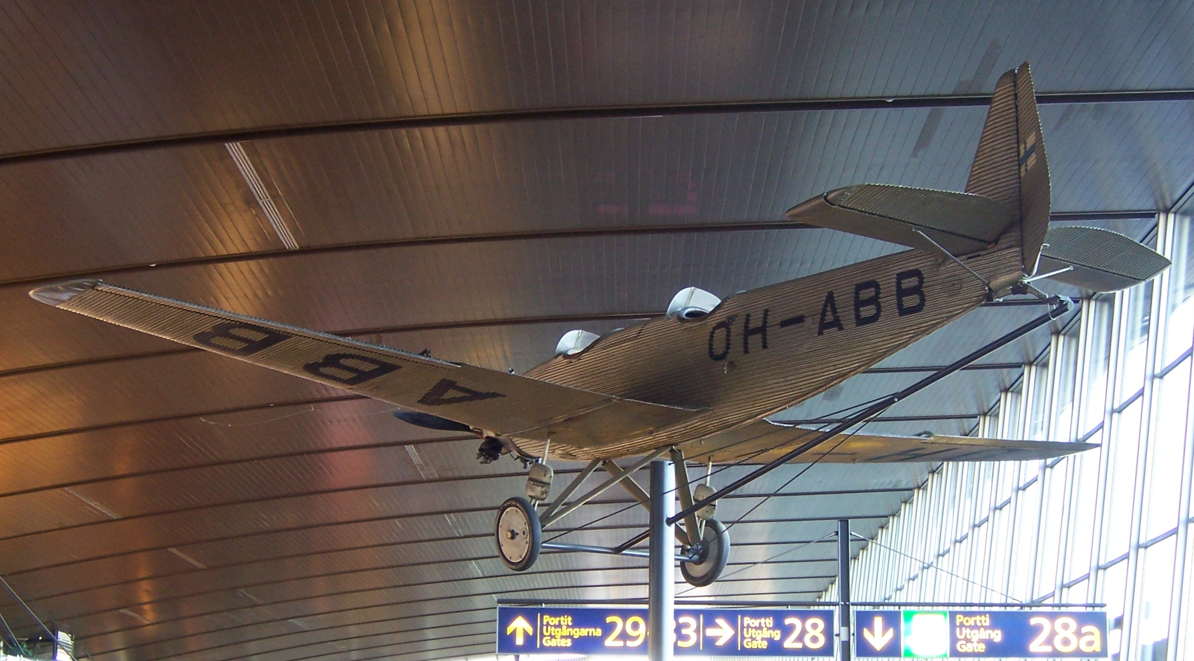 Junkers A50 (OH-ABB) in the departure hall of Helsinki-Vantaa Airport Terminal 2